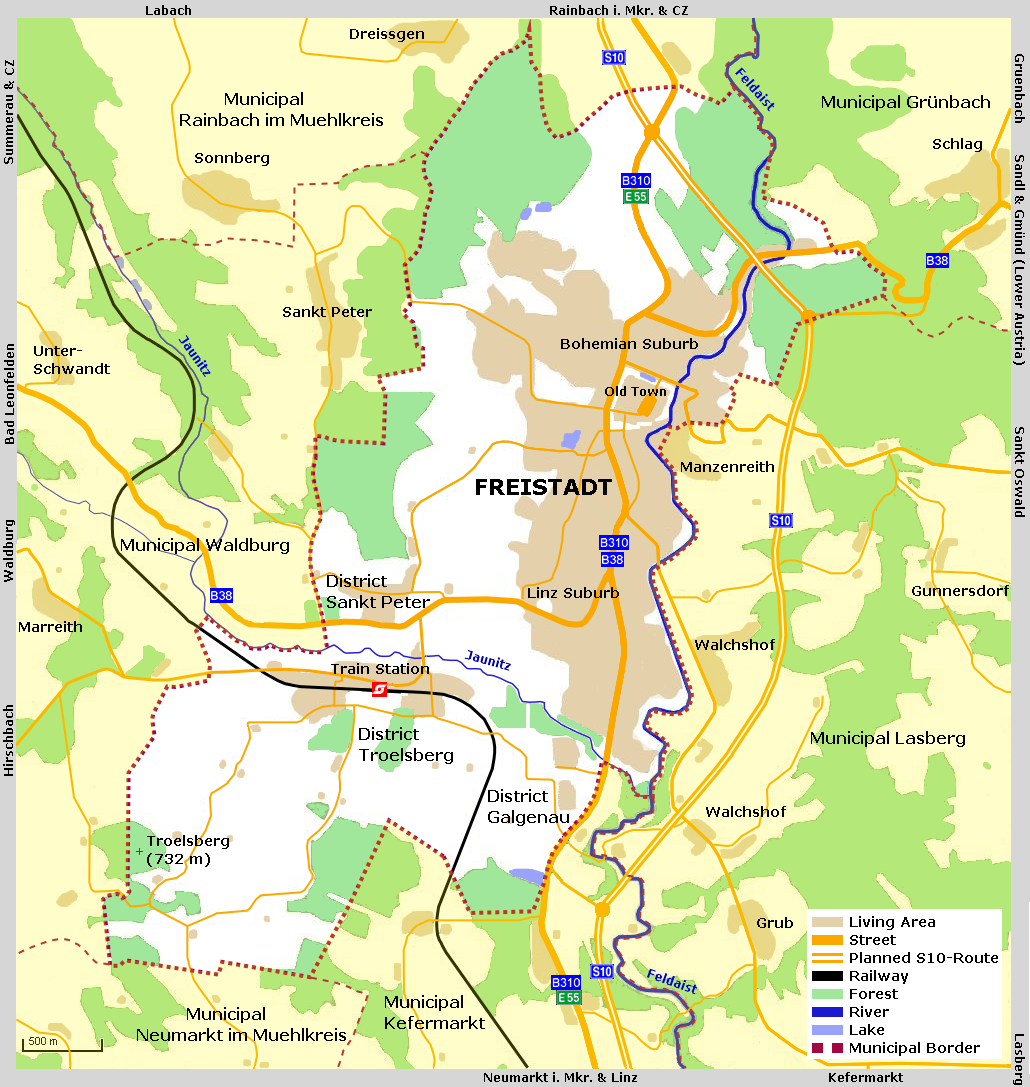 Area Map of Freistadt - English Version